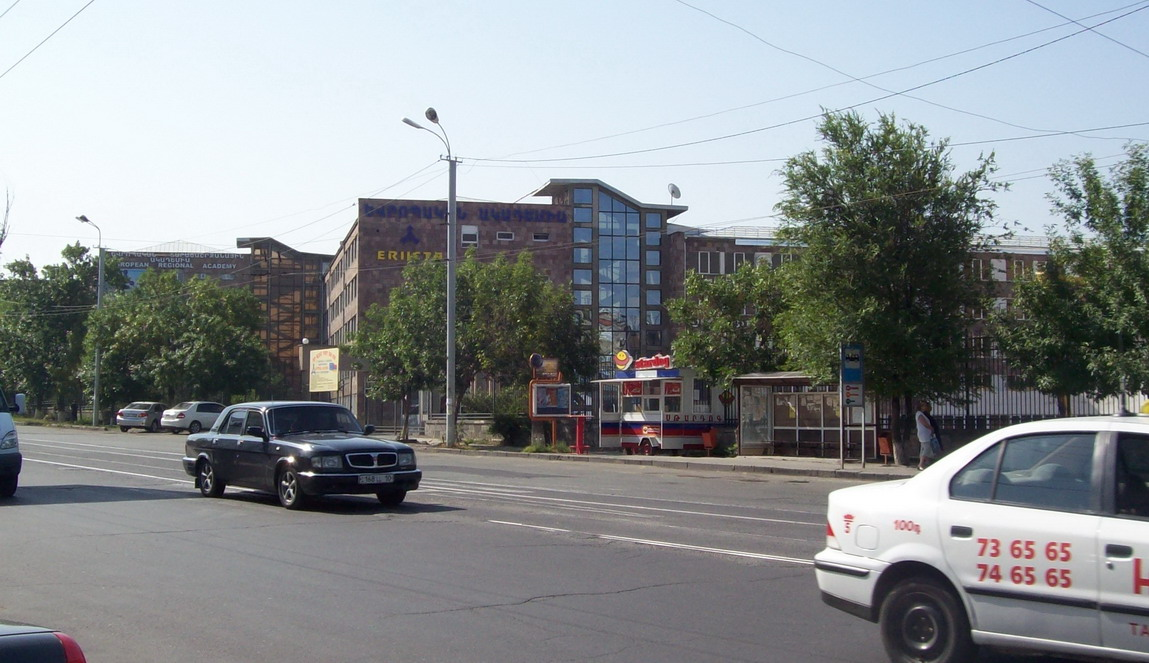 European Academy